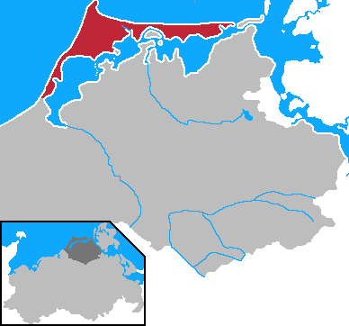 Mecklenburg-Vorpommern, Fischland-Darß-Zingst Peninsula (marked red).